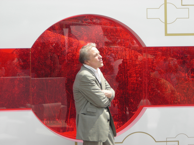 American movie screenwriter and director Abel Ferrara.